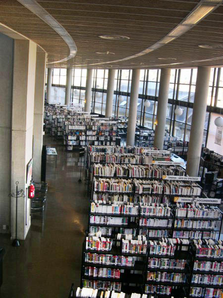 Inside of the Médiathèque Jean-Jacques Rousseau media library of Chambéry, in Savoie, France.